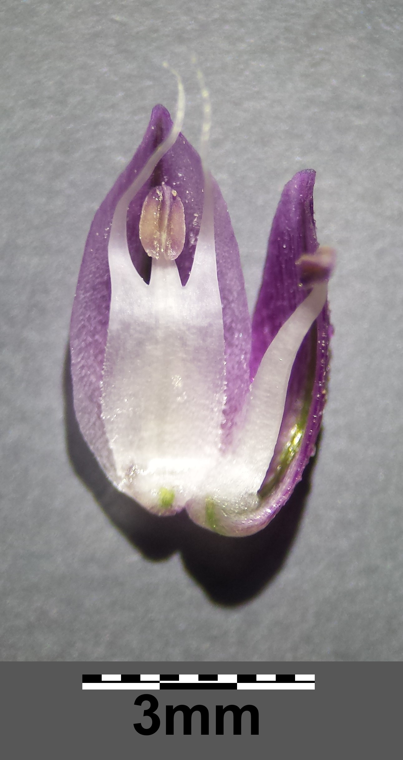 Perigone leaves (interior view) with stamina Taxonym: Allium rotundum ss Fischer et al. EfÖLS 2008 ISBN 978-3-85474-187-9 Location: Steinberg near Niederhollabrunn, district Korneuburg, Lower Austria - ca. 375 m a.s.l. Habitat: semi-dry grassland